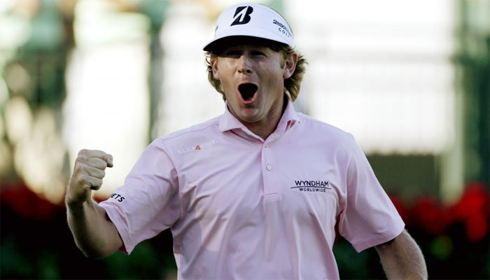 Brandt Snedeker's reaction to winning the 2012 PGA Tour Championship